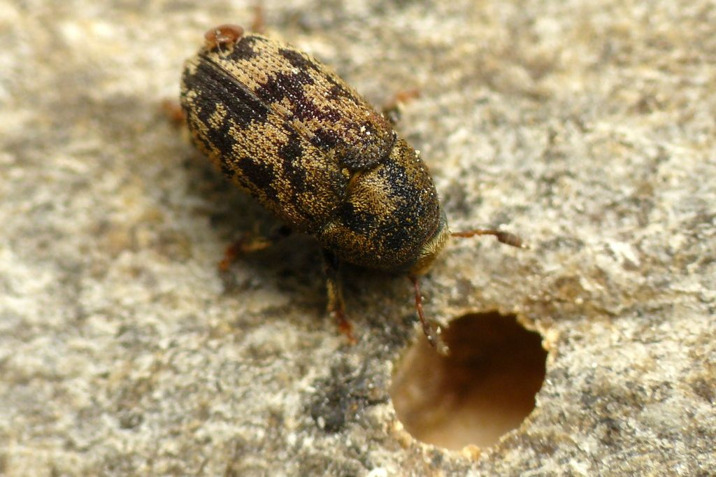 Hylesinus varius